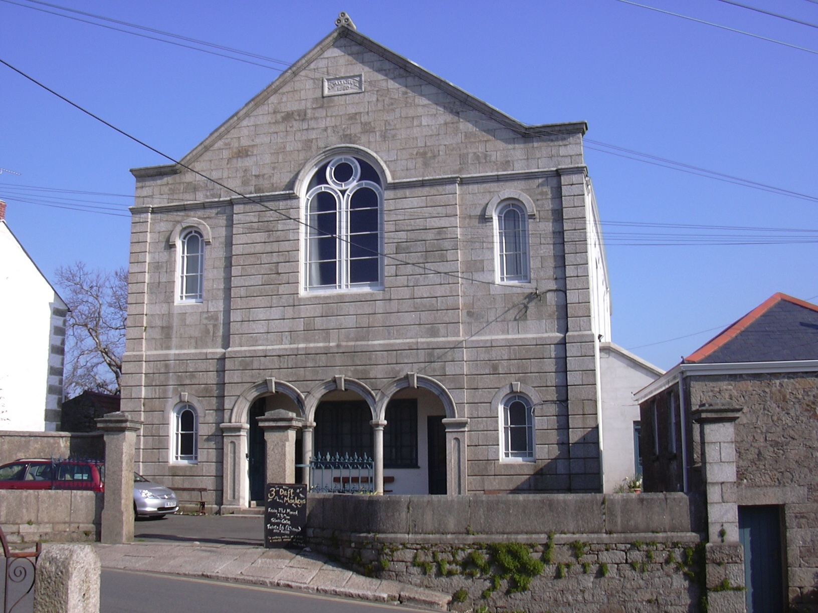 The Tolmen, Constantine in Kerrier (formerly the Wesleyan Methodist Church). I took this photograph 24 March 2007.Vernon White (talk) 20:14, 24 March 2007 (UTC)